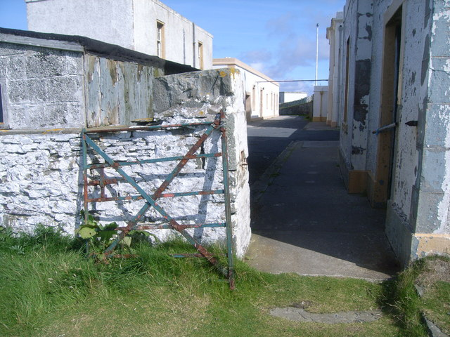 Lighthouse buildings at Sumburgh Head